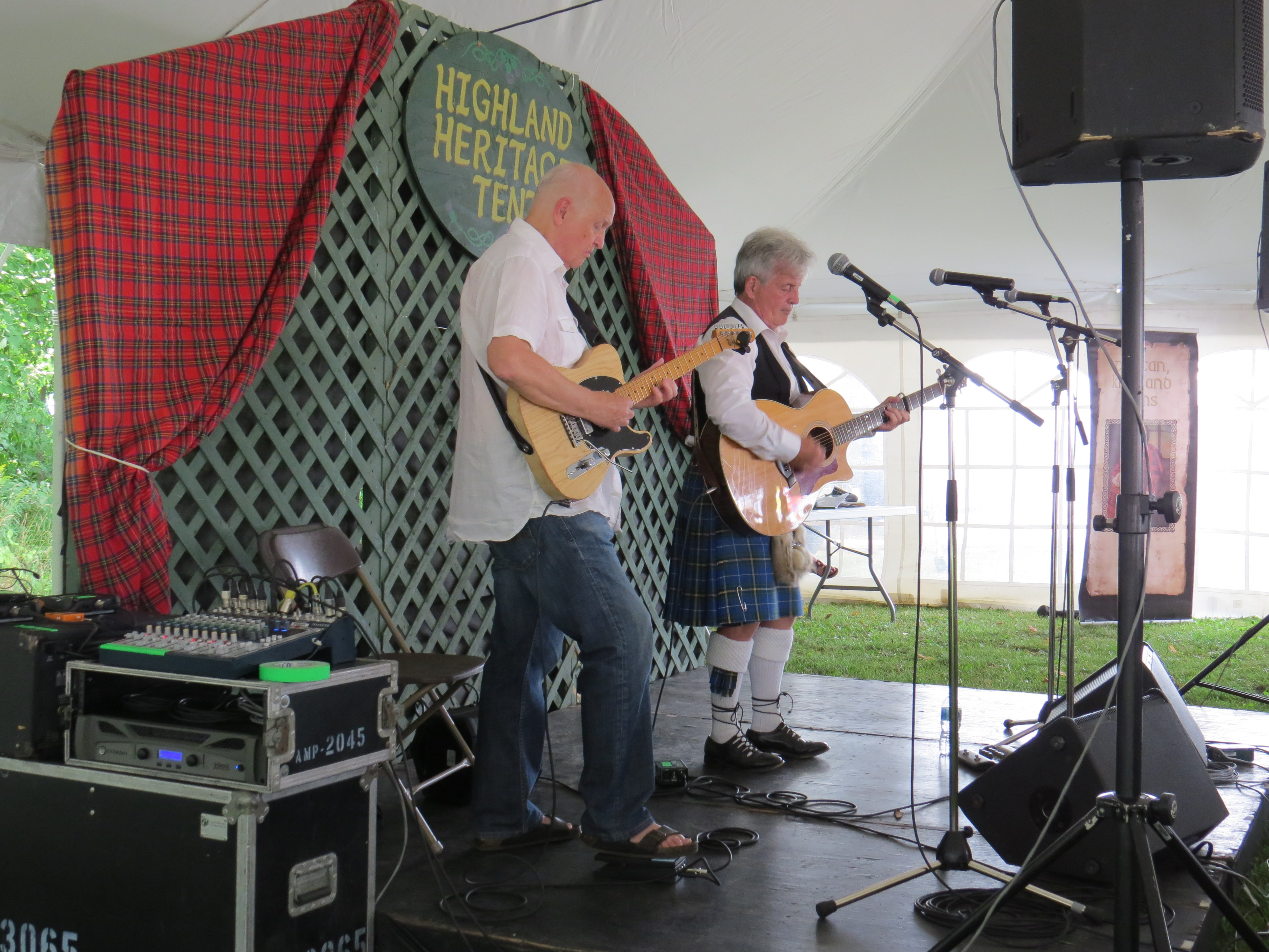 Bill Bridges and Tommy Leadbeater perform in the Heritage tent at the Fergus Scottish Festival and Highland Games, August 2018